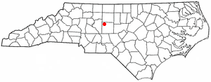 Category:North Carolina Dot Maps